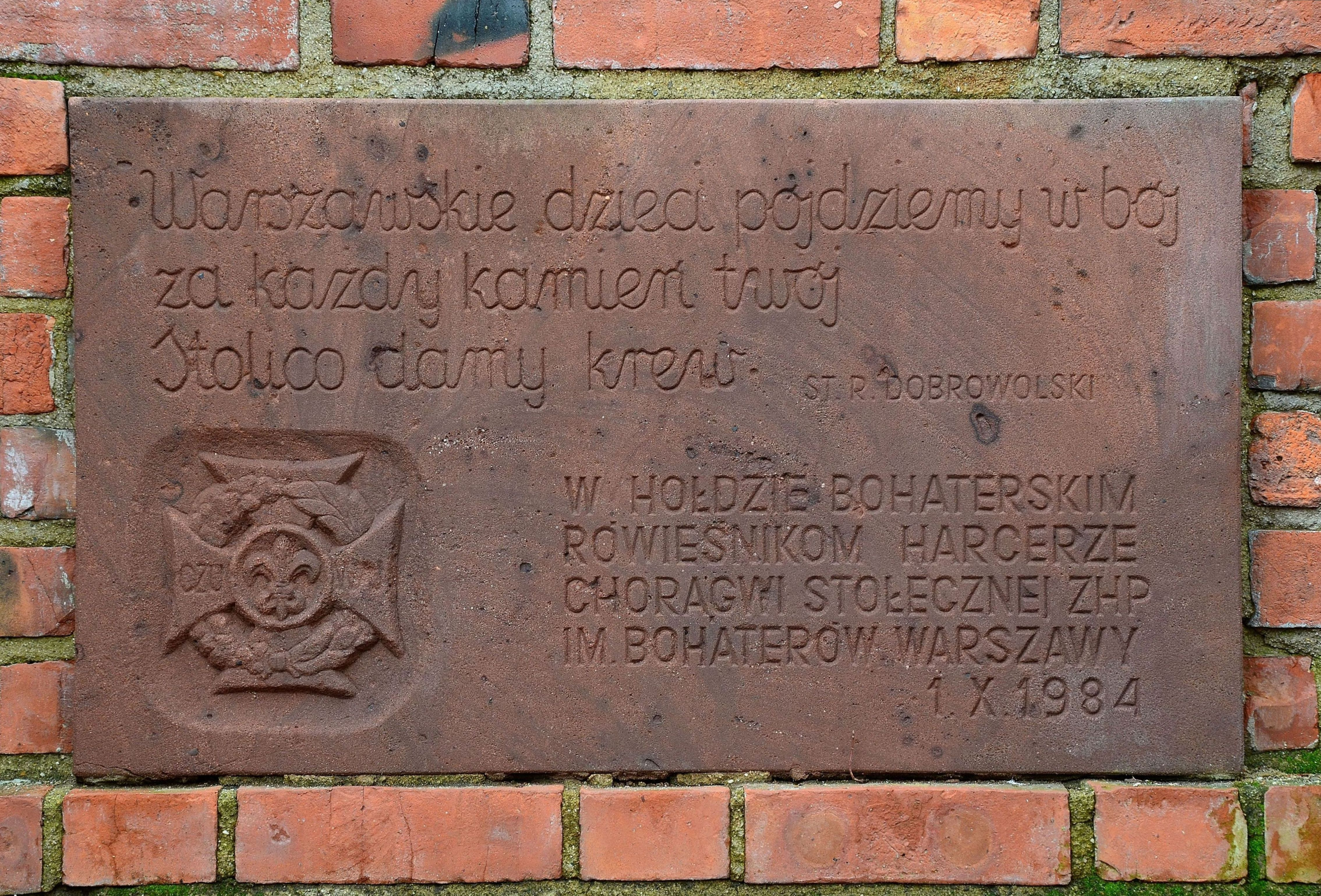 Plaque at the Little Insurgent Monument in Warsaw